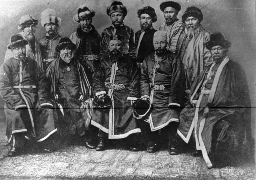 The notable persons of Turan ( 19 century's kazakhs)